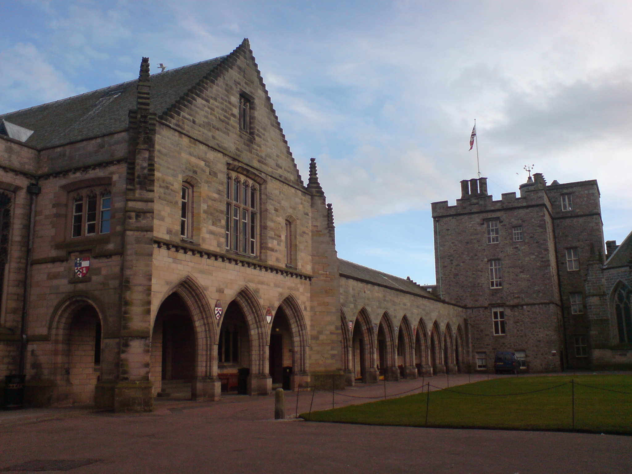 Photo of Elphinstone Hall